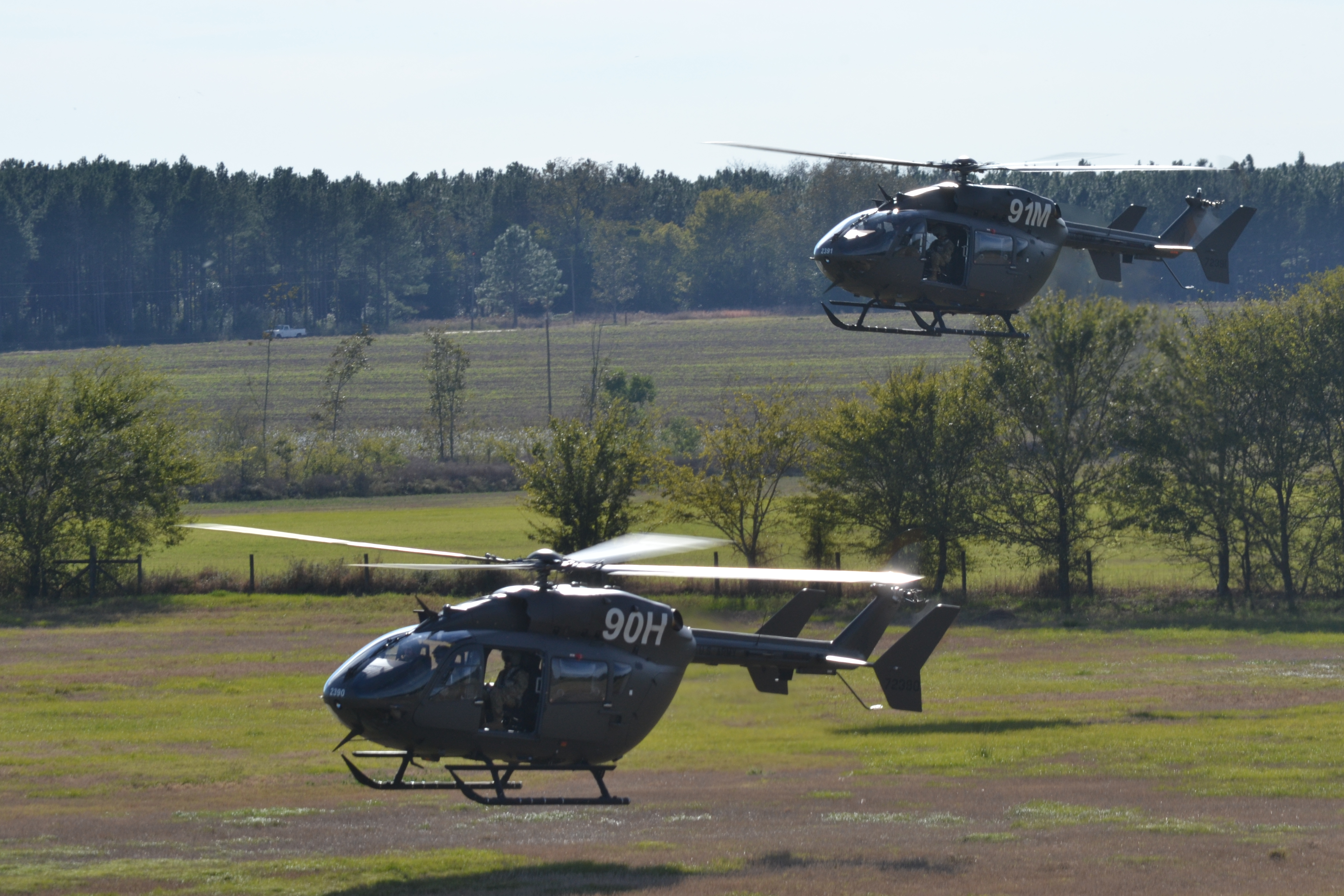 Two UH-72As maneuvering on the ground near each other.